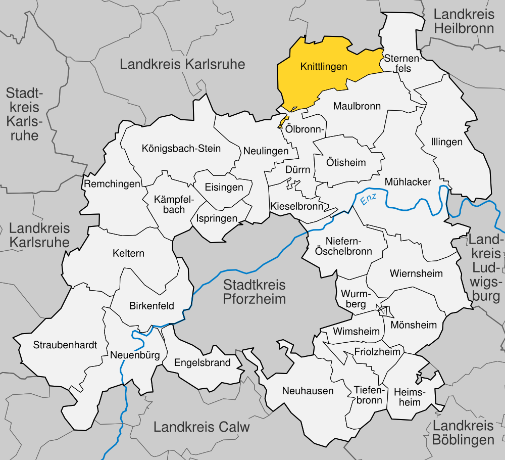 position of Knittlingen within distict of Enzkreis, Baden-Württemberg, Germany